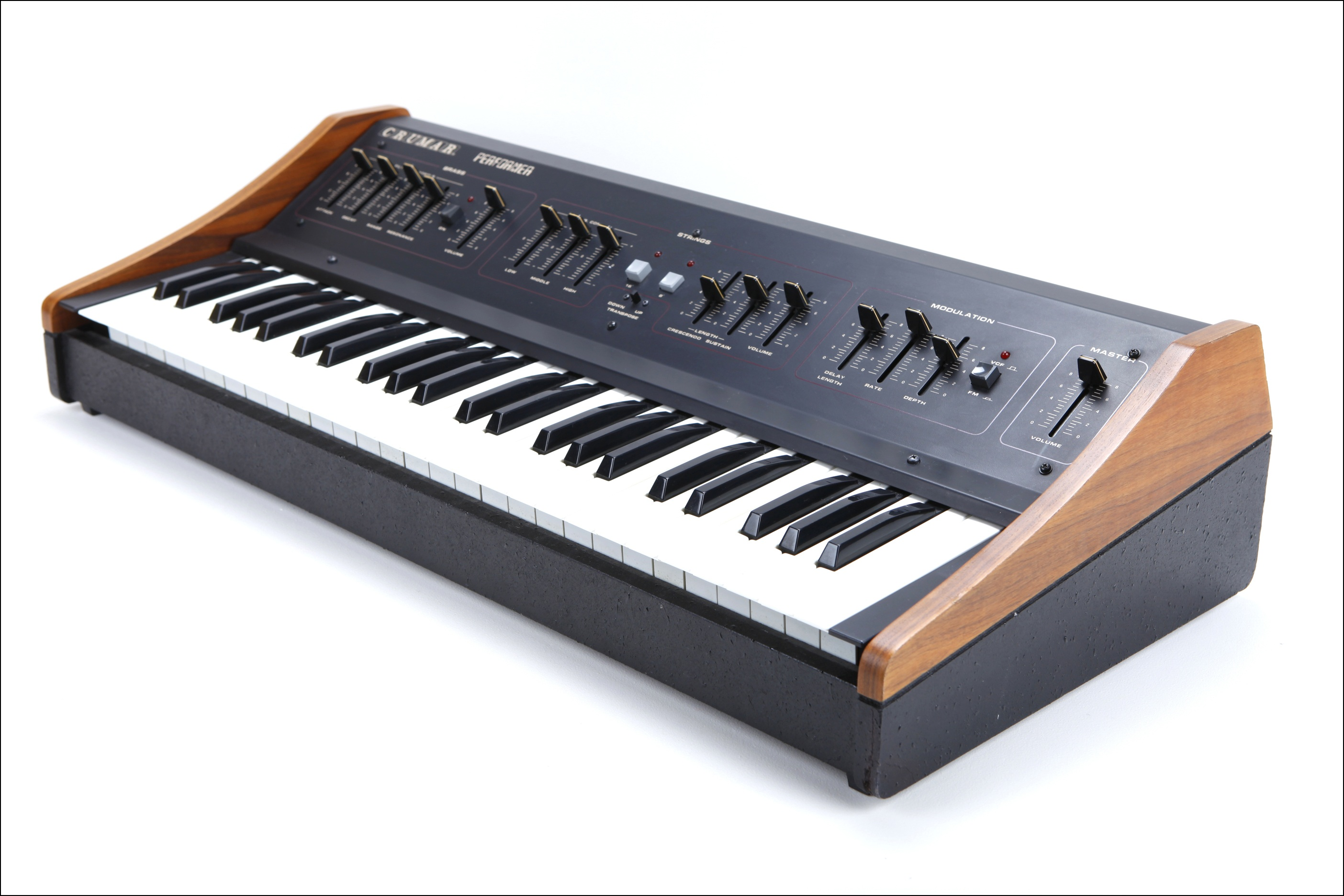 Crumar Performer (front right)